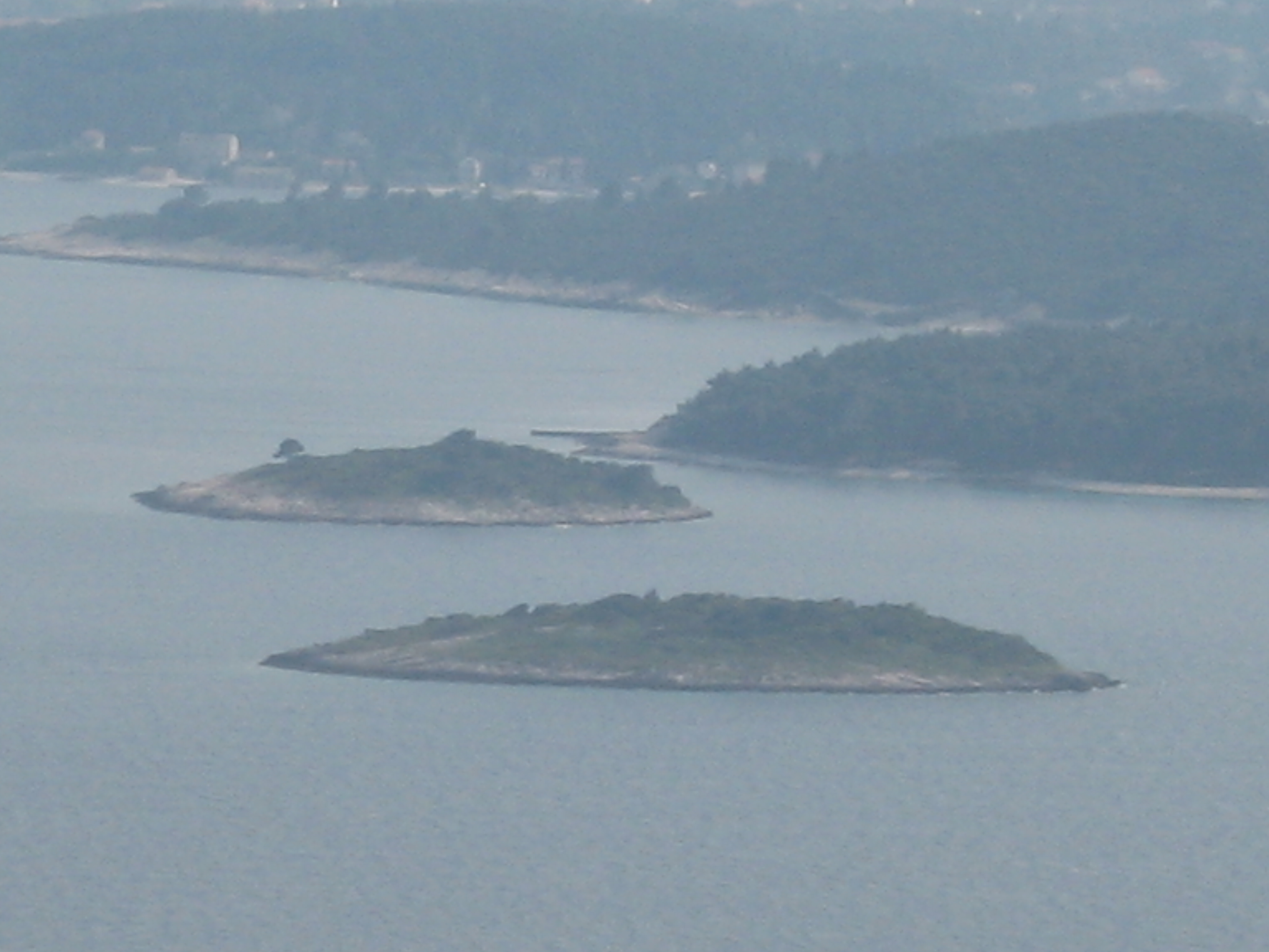 Islands of Rogačić(upper one) and Lučnjak (lower one)